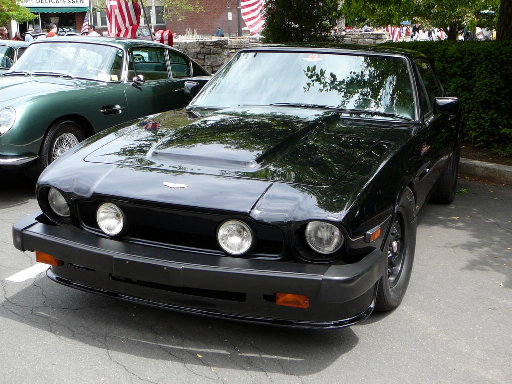 Aston Martin V8 Vantage (1982) at Scarsdale Concours 2006